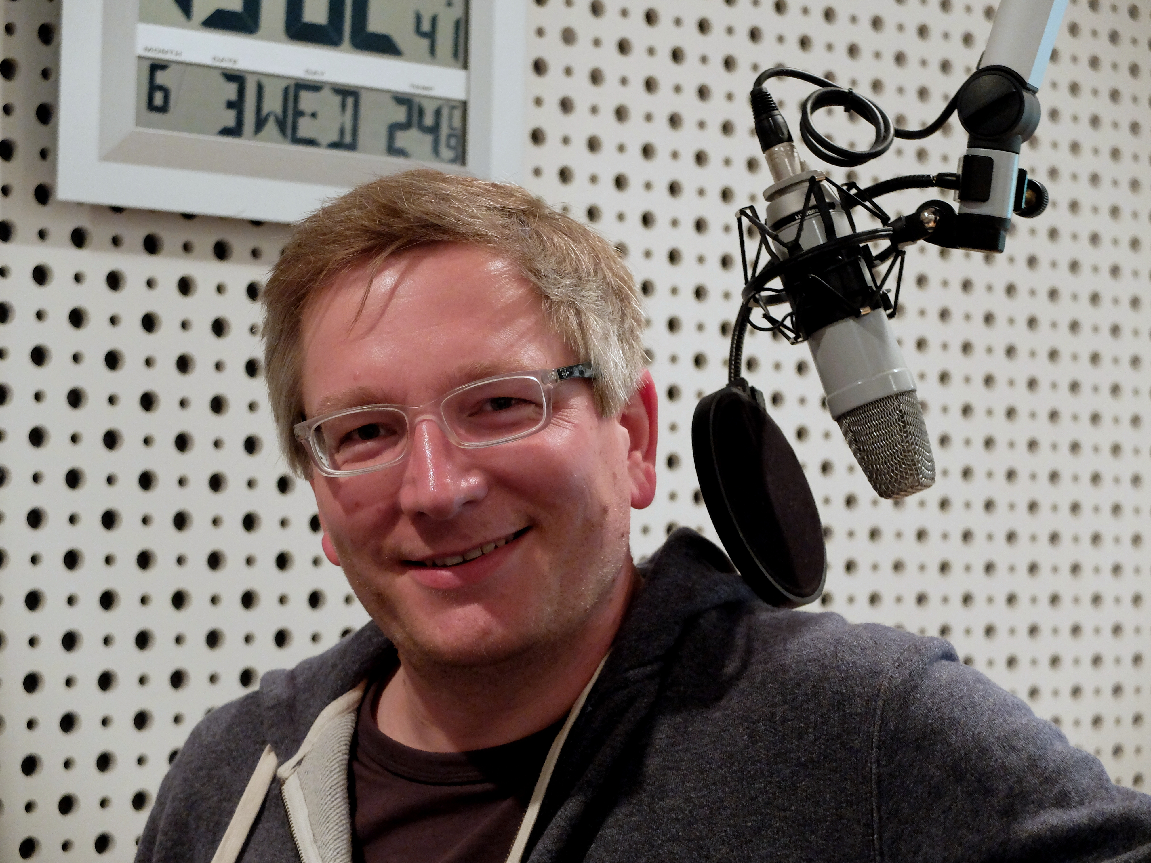 Michael Schulte ist the co-founder of Klexikon.de Michael Schulte ist einer der Gründer von Klexikon.de